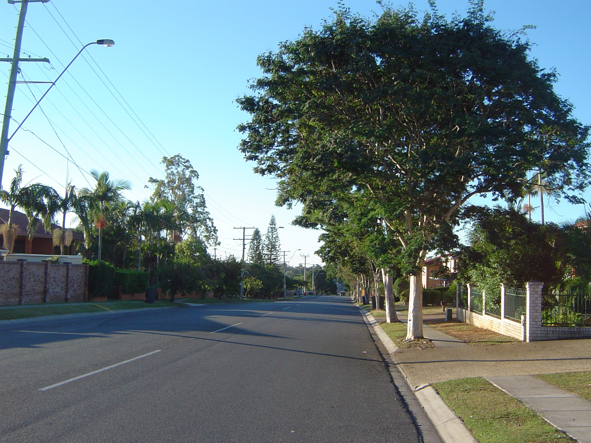 Photo of Ham Road at Wishart, Brisbane, Queensland, Australia.